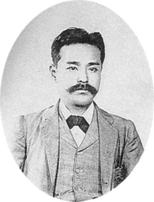 M. Kumagawa, Professor of Medical Chemistry.